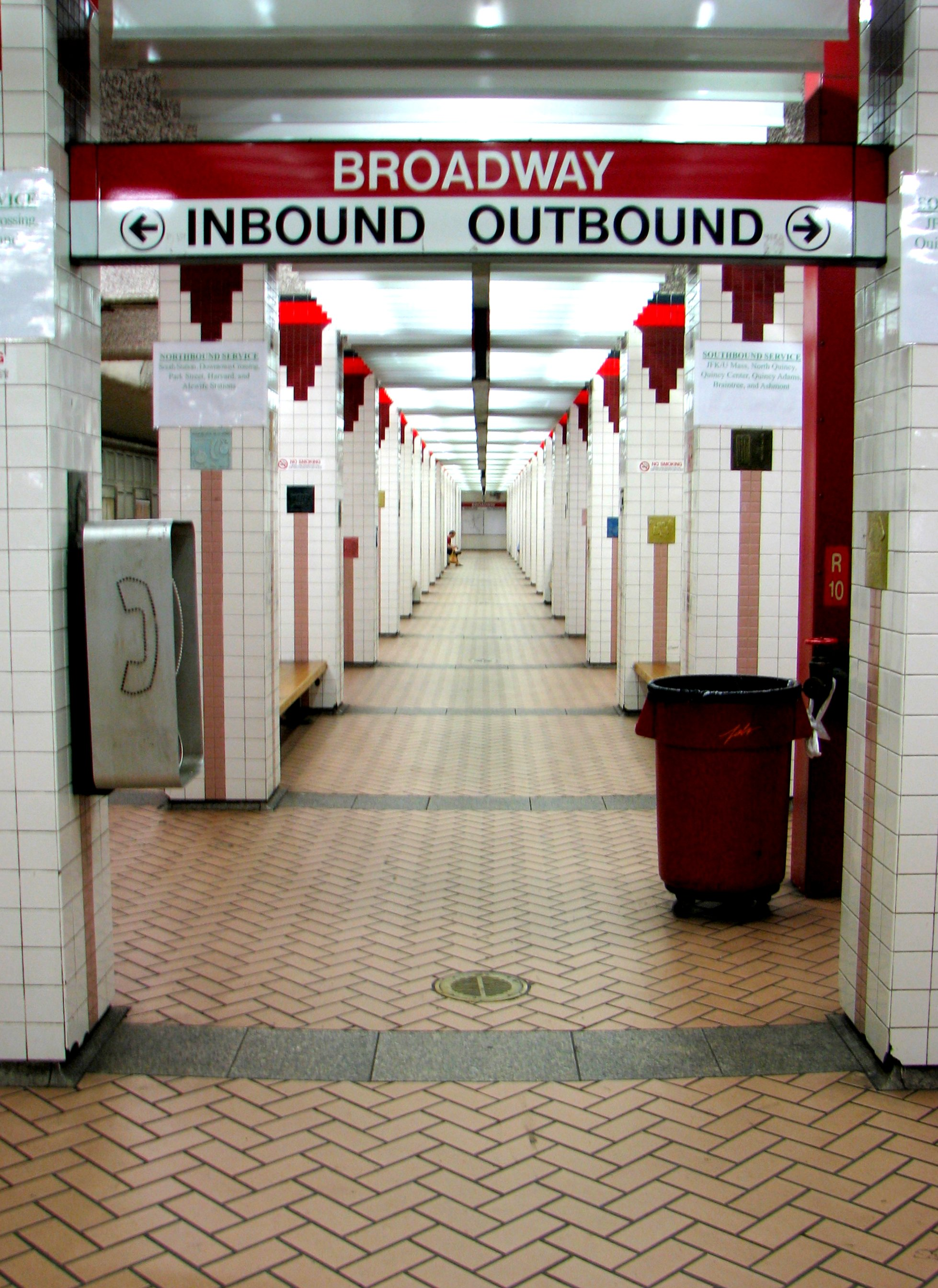 The platform at the MBTA Broadway station.